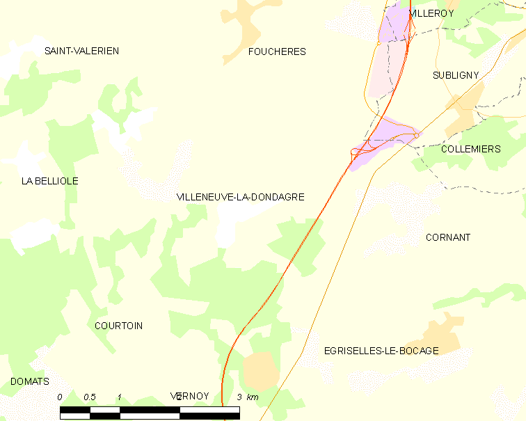 Map of French municipality Villeneuve-la-Dondagre